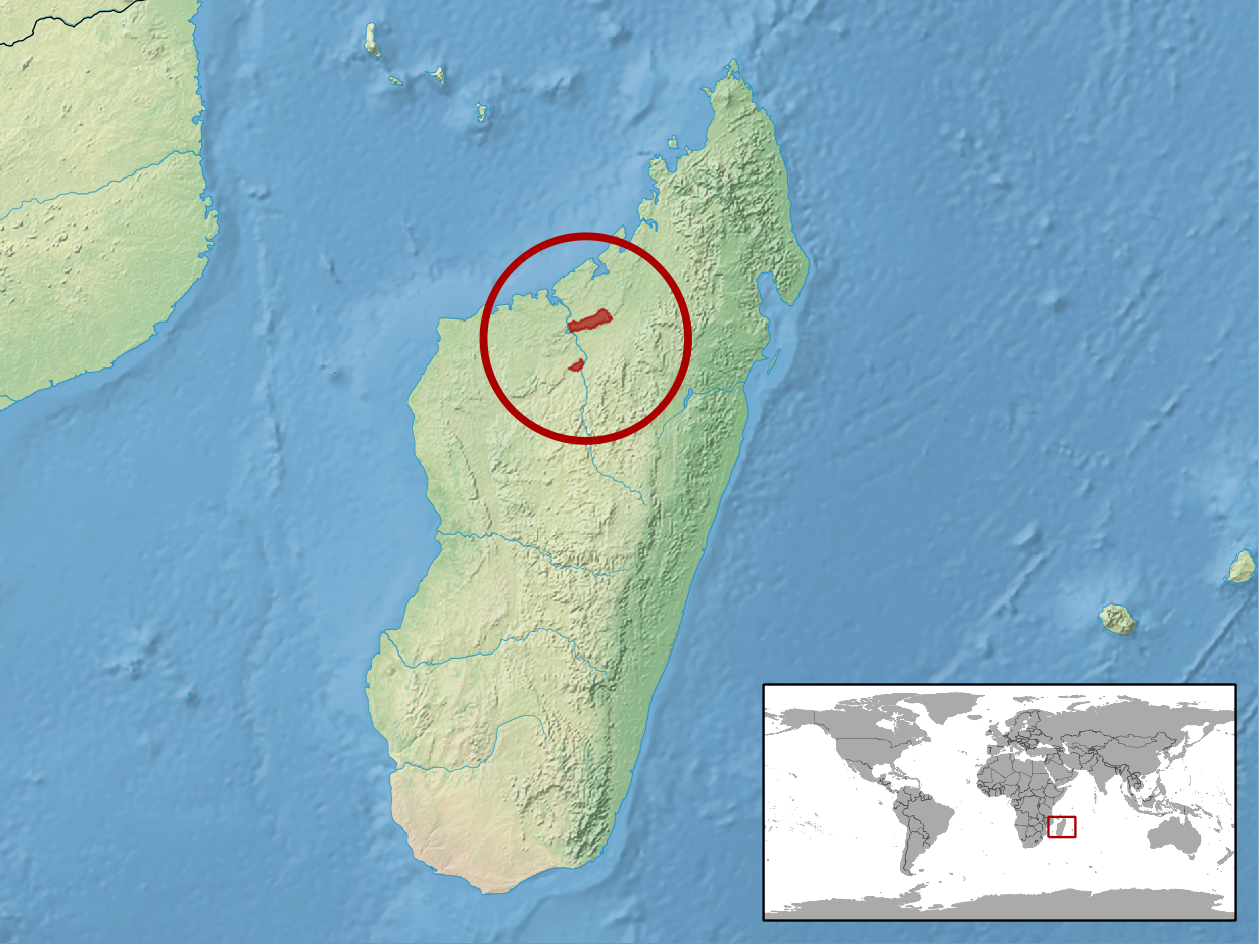 geographic distribution of Brookesia dentata (Native: Madagascar)